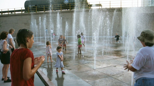 Children play in water fountains, in downtown Oklahoma City, OK, U.S.A.